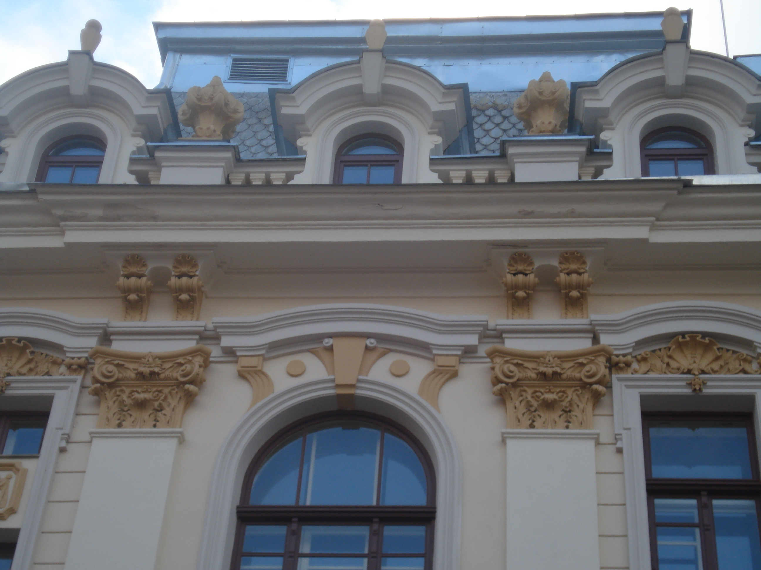 The Institute of Lithuanian Literature and Folklore in the palace of the Vileišis family (designed by August Klein, erected by Lithuanian engineer Petras Vileišisin in 1904-1906). Baroque elements. Vilnius, Antakalnio g. 6